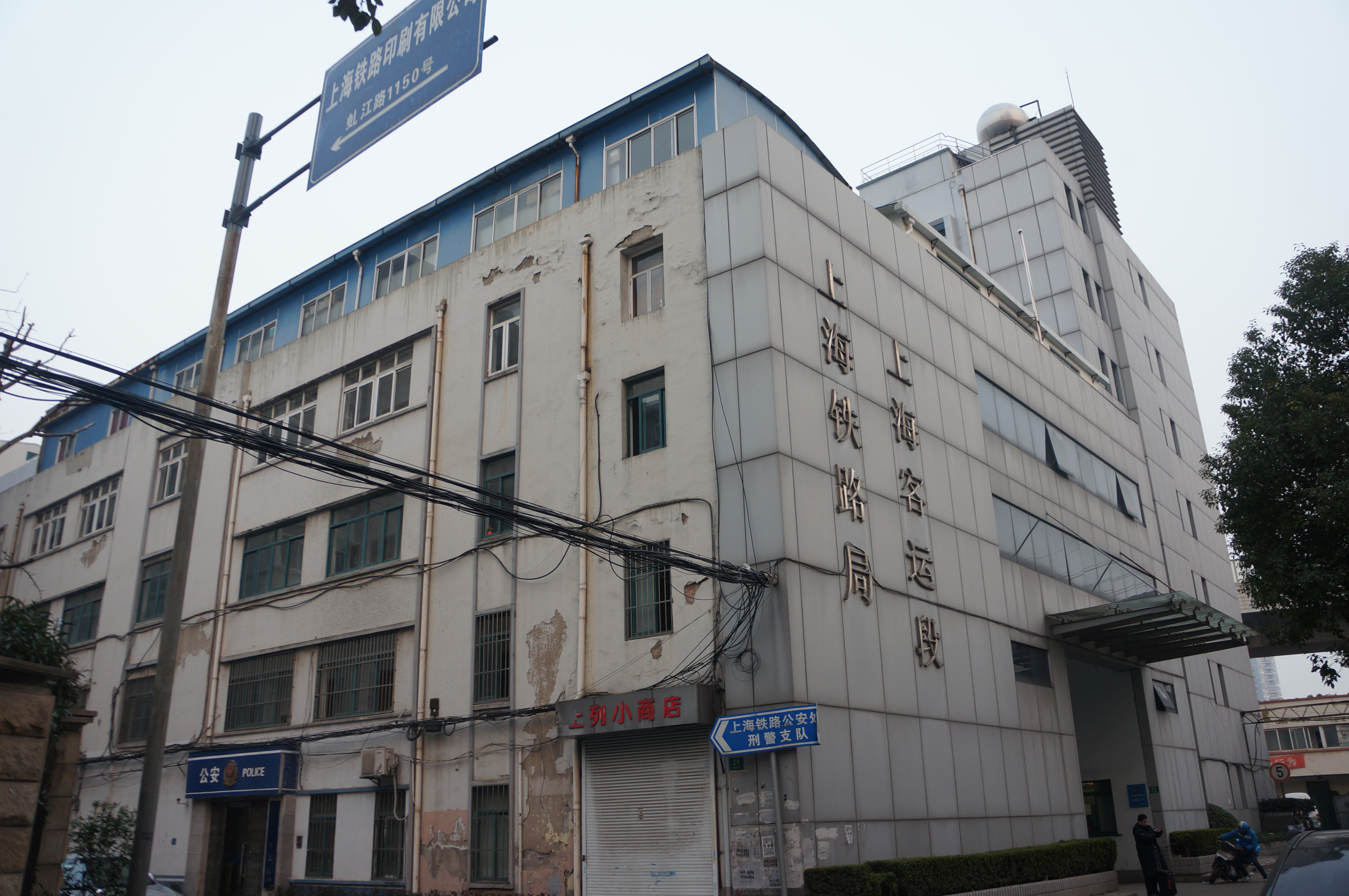 201702 SRSS headquarter, though I do not know the full name still. Note the shop named "coach depot" beside